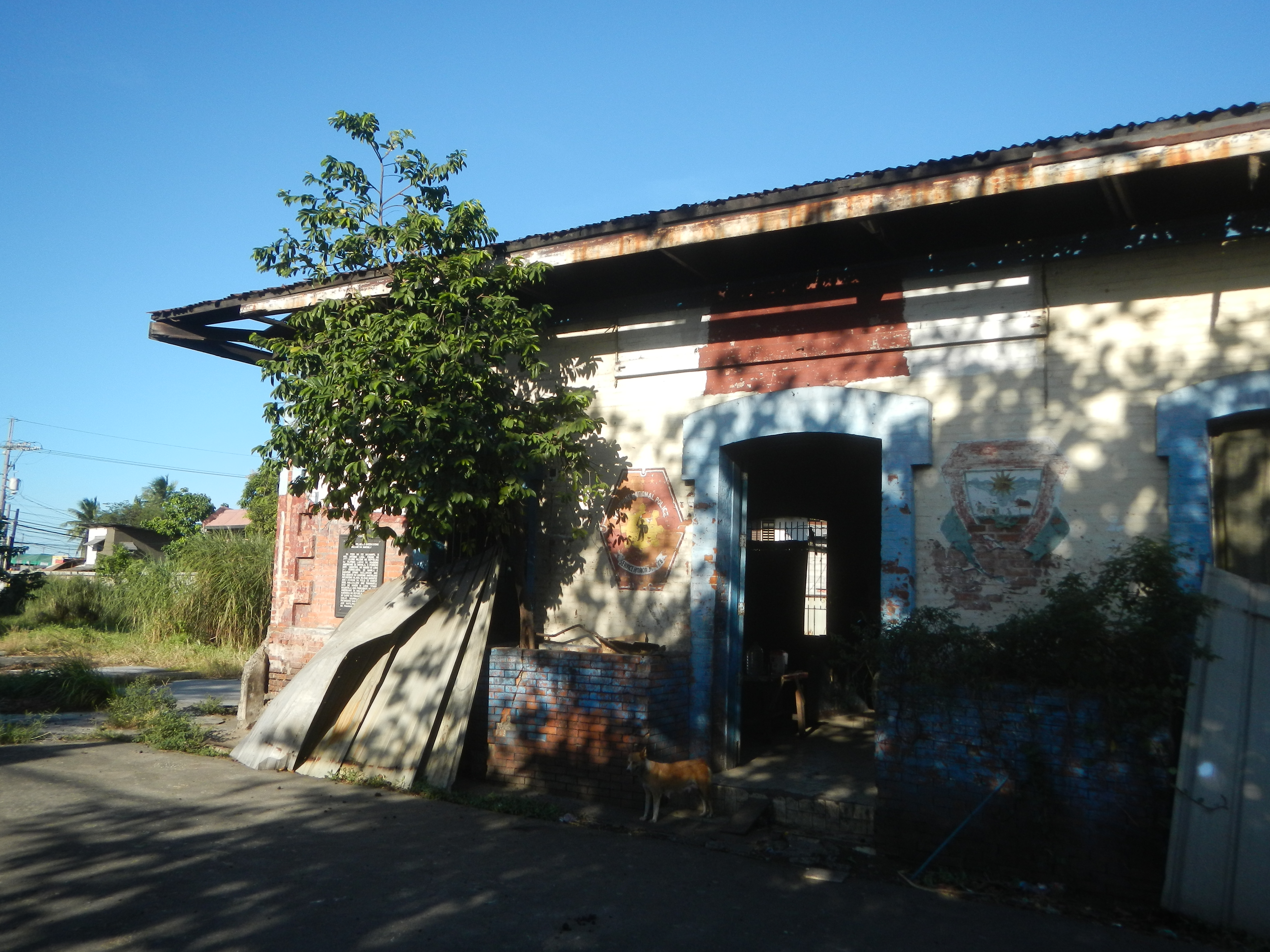 Punong Himpilan ng Operasyong Militar sa Maynila, Antonio Luna 5 February-March 25, 1899 - PNR station, Valenzuela City Valenzuela railway station 5 istasyon ng Manila-Clark Railway minarkahan List of historical markers of the Philippines in Metro Manila Old Polo train Station, Lists of barangays in Philippine cities and municipalities, List of barangays in Valenzuela Punturin, Valenzuela Lawang Bato, Valenzuela Veinte Reales Dalandanan, Valenzuela Dalandanan 14°42'12"N 120°57'45"E Valenzuela, Metro Manila along and from MacArthur Highway or Manila North Road) (Note: Judge Florentino Floro, the owner, to repeat, Donor Florentino Floro of all these photos hereby donate gratuitously, freely and unconditionally all these photos to and for Wikimedia Commons, exclusively, for public use of the public domain, and again without any condition whatsoever).